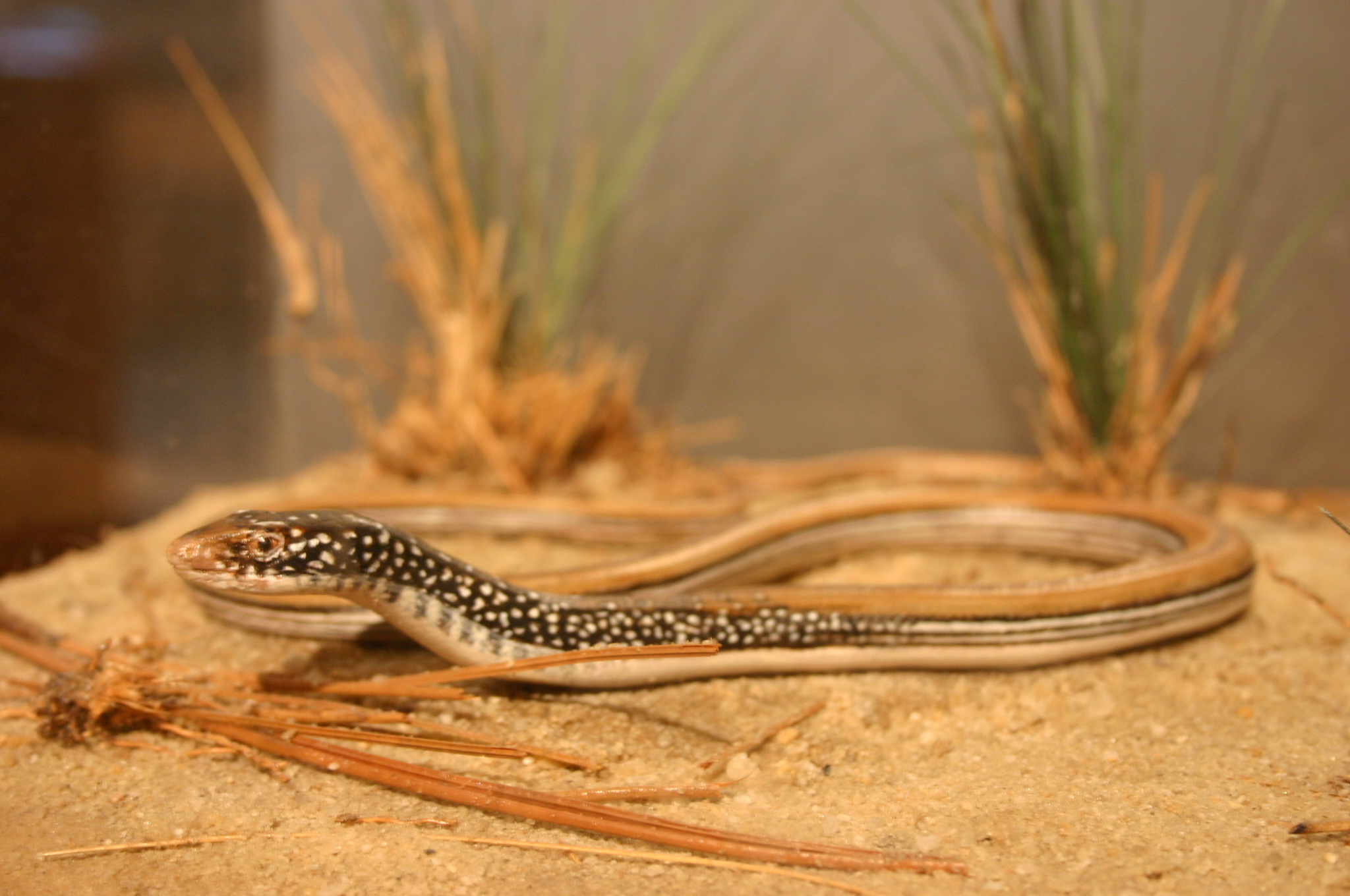 Ophisaurus mimicus Visit my blog at